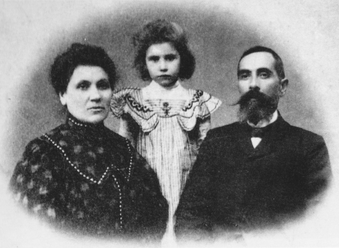 Kostadin Zmiyarov family Dupnitsa